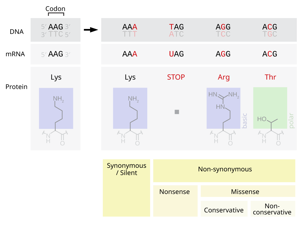 Types of point mutations. With examples.